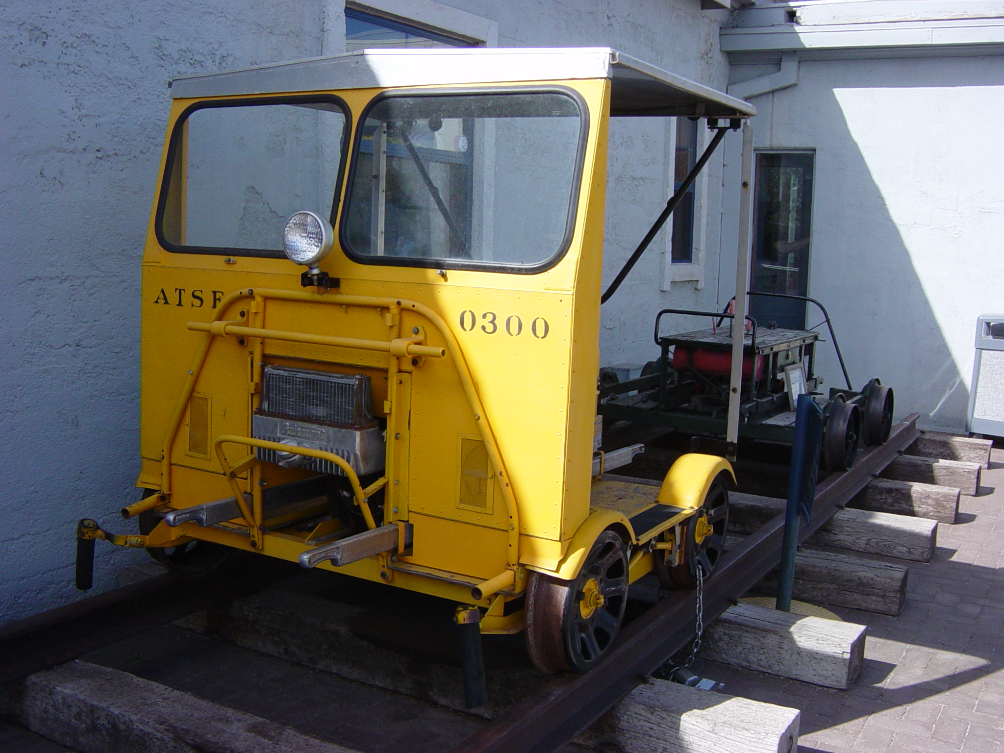 Railcar for transport of right-of-way inspection and signaling system maintenance crews, displayed at Williams, Arizona Placard (with nonsubstansive edits by poster) reads: MAKE: FAIRMONT MODEL: M-19 YEAR: 1939 to 1946 SERIAL NO.: 150510 ENGINE: FAIRMONT ODB-B 1 CYLINDER 2 CYCLE, GASOLINE AND OIL, WATER-COOLED, TWIN FLYWHEEL 5 to 8 HORSEPOWER, BUZZ BOX IGNITION ROAD: ATCHESON, TOPEKA, AND SANTA FE RAILWAY ROAD NUMBER: 0300 Mainly use for track inspection and signal maintenance. Restored by Hadder and Robert Robinson of the Grand Canyon Chapter National Railway Historical Society. Restoration took alomost two years and it is now operable. Test run three was a successful run to milepost 10.3 and bacvk on December 8, 2000. Will eventually be displayed at the Arizona State Railroad Museum and may be run at special events. Features: Windshield and roof with canvas curtains, 1958 replacement engine, rare rubber tire wheel Image taken and uploaded by User:Leonard G.